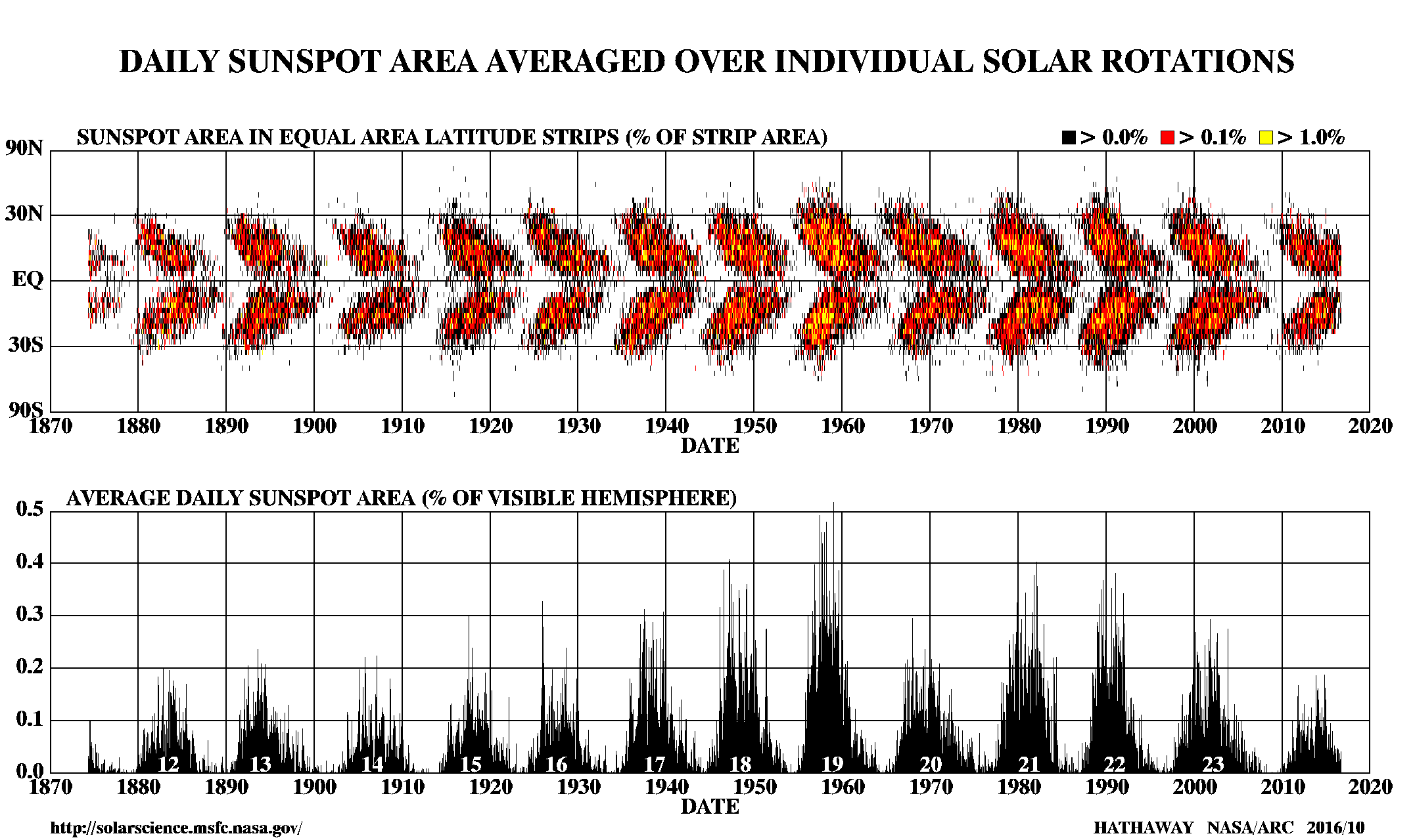 Daily sunspot area averaged over individual solar rotations. This is colloquially known as the "Butterfly Diagram". Detailed observations of sunspots have been obtained by the Royal Greenwich Observatory since 1874. These observations include information on the sizes and positions of sunspots as well as their numbers. These data show that sunspots do not appear at random over the surface of the sun but are concentrated in two latitude bands on either side of the equator. A butterfly diagram (updated monthly) showing the positions of the spots for each rotation of the sun since May 1874 shows that these bands first form at mid-latitudes, widen, and then move toward the equator as each cycle progresses. — NASA